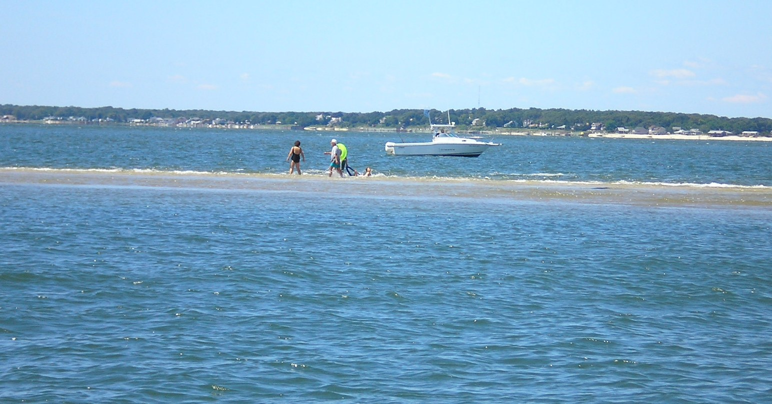 The author of this photo is me, David Shankbone. Sandbar. August 2006.